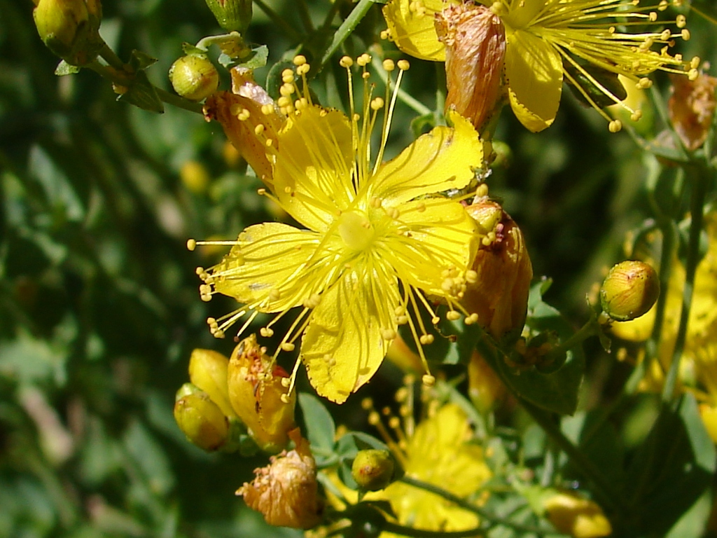 scouler's st john's wort